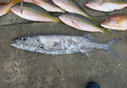 Mike Guerin, My personally owned file, Epinnula magistralis